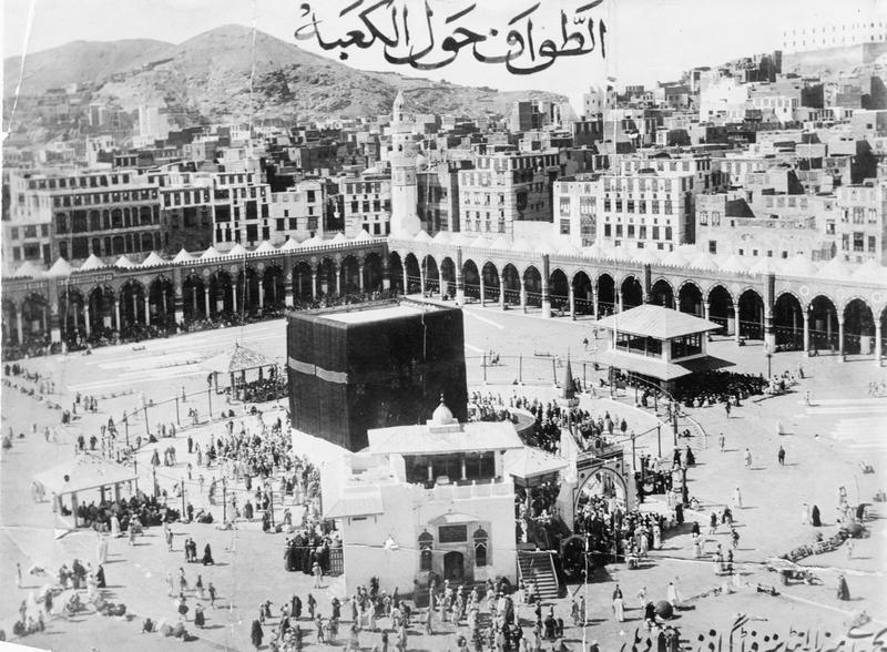 T E Lawrence and the Arab Revolt 1916 - 1918 Mecca - the Kaaba. Looking down over the Haram, with the city behind. Arabic inscription at the top reads - "Al-tawwaf hawl al-Ka'bah" (The circumambulation of the Ka'bah).